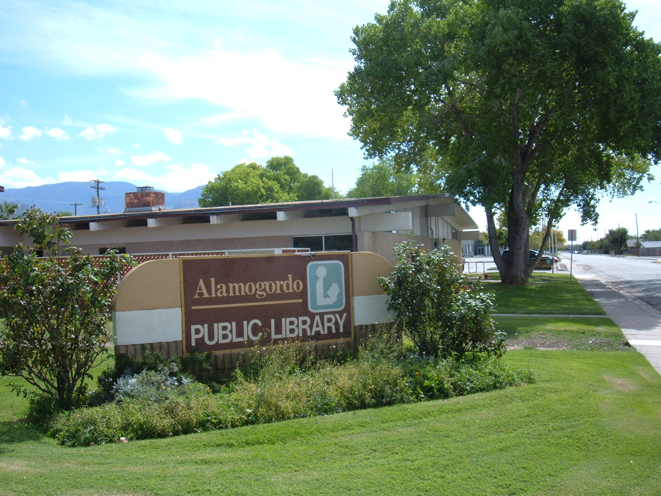 Library sign at the corner of 10th Street and Oregon Avenue in Alamogordo, New Mexico. Alamogordo Public Library is in the background, with the Sacramento Mountains behind it.